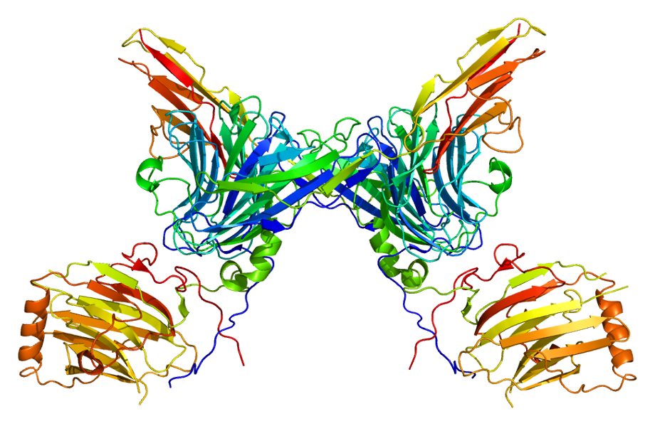 Structure of the AXL protein. Based on PyMOL rendering of PDB 2c5d.